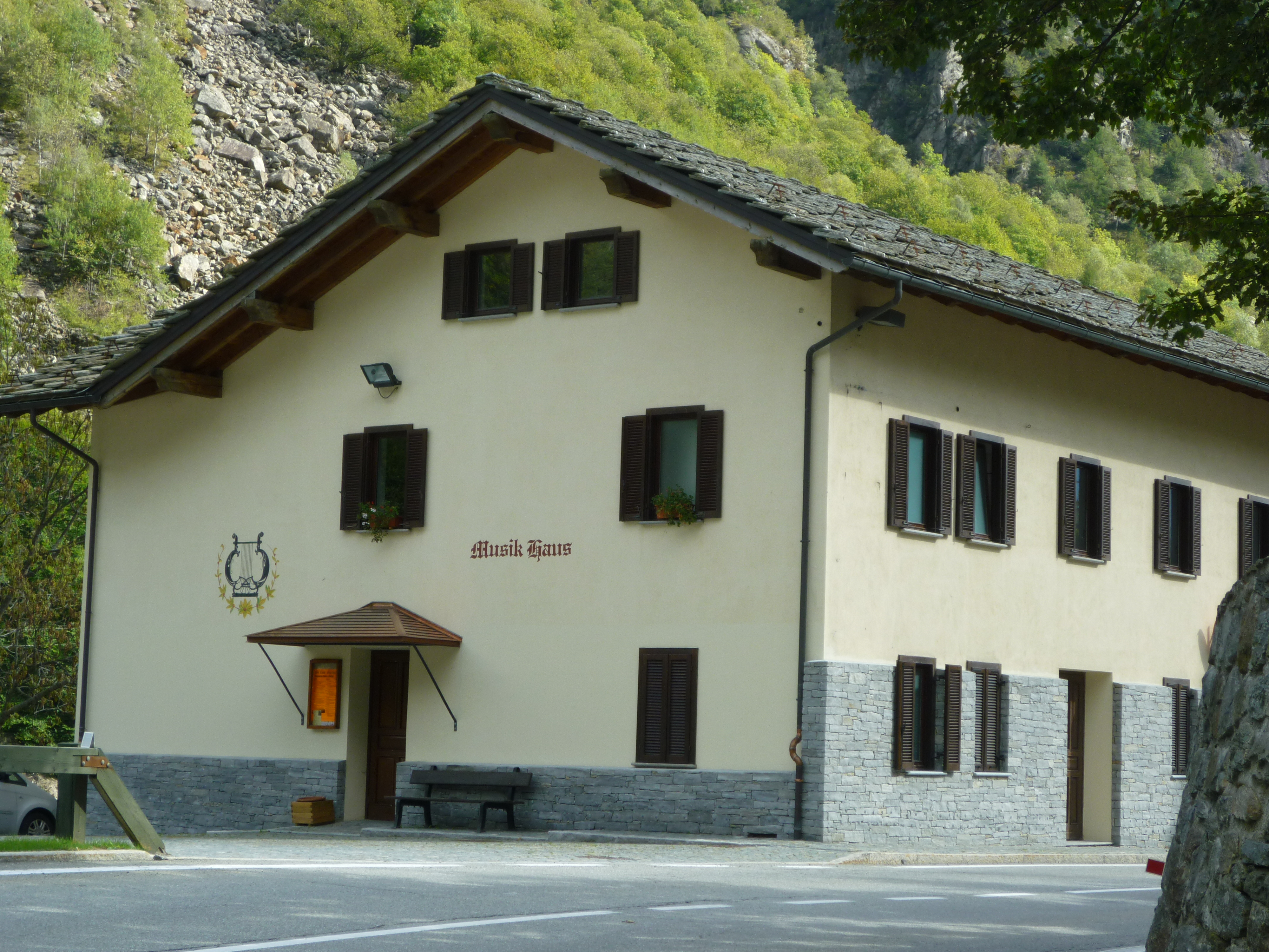 Musikhaus in Issime (Aosta Valley, Italy)